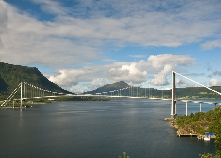 The Gjemnessund Bridge is a road bridge on European route E39 in Møre og Romsdal county (fylke), Norway